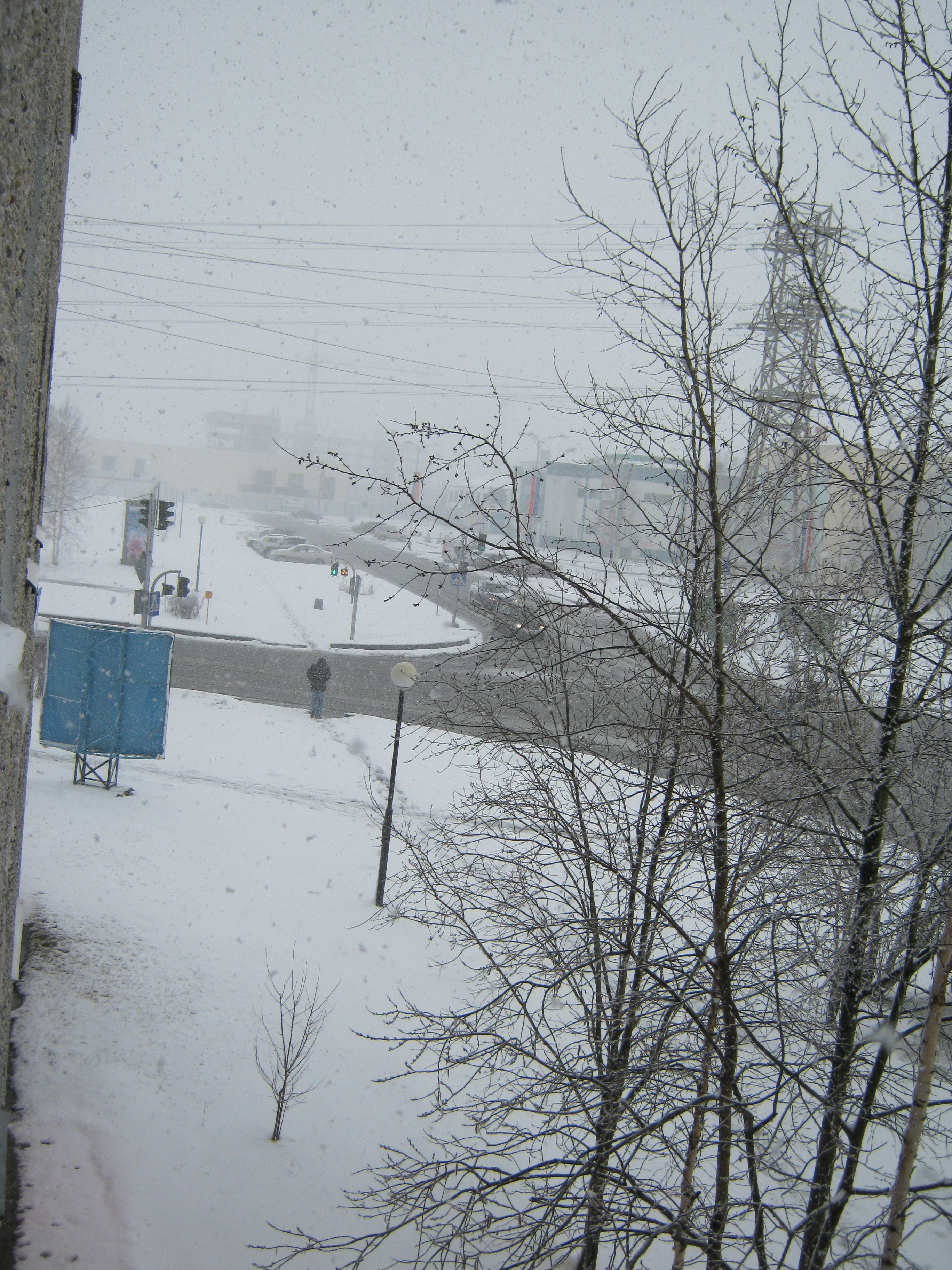 Morning of April 26, 2011 began heavy snowfall, which went, roughly, to 14.00